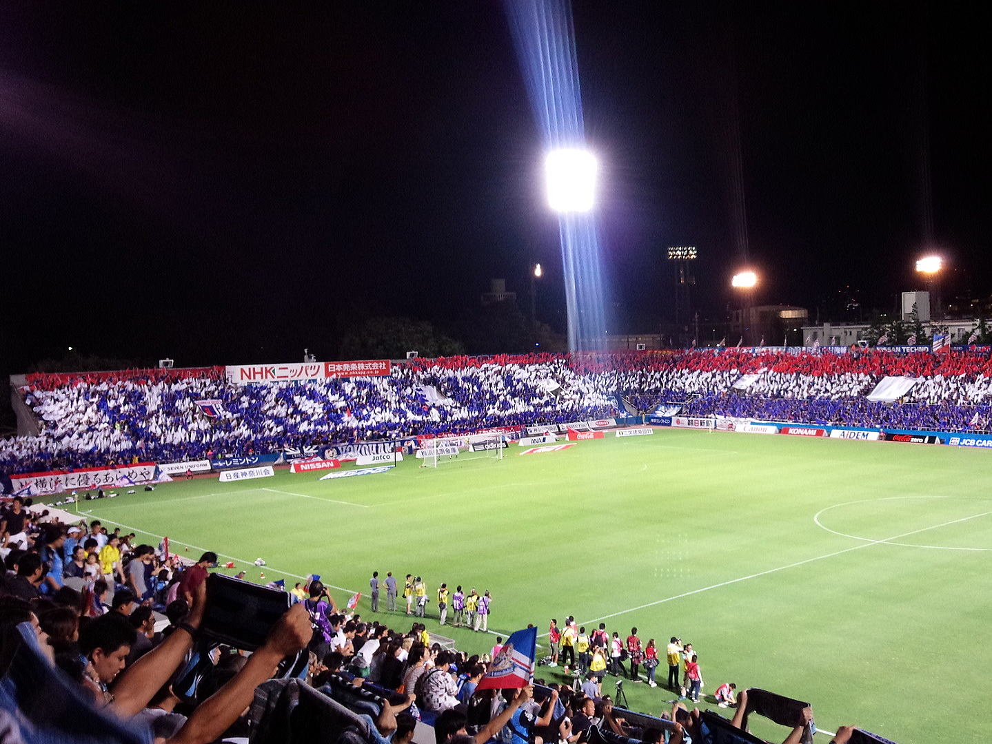 Mitsuzawa Stadium